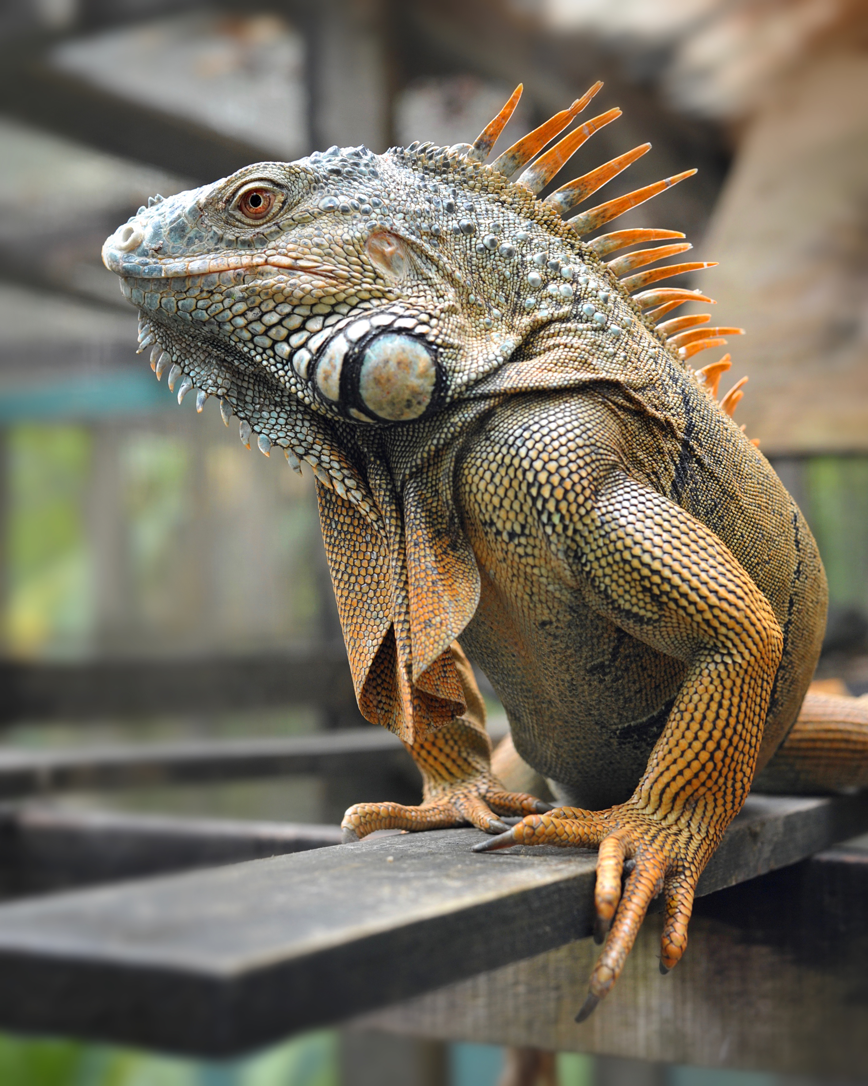 Male green iguana at the Green Iguana Conservation Project in San Ignacio, Belize.